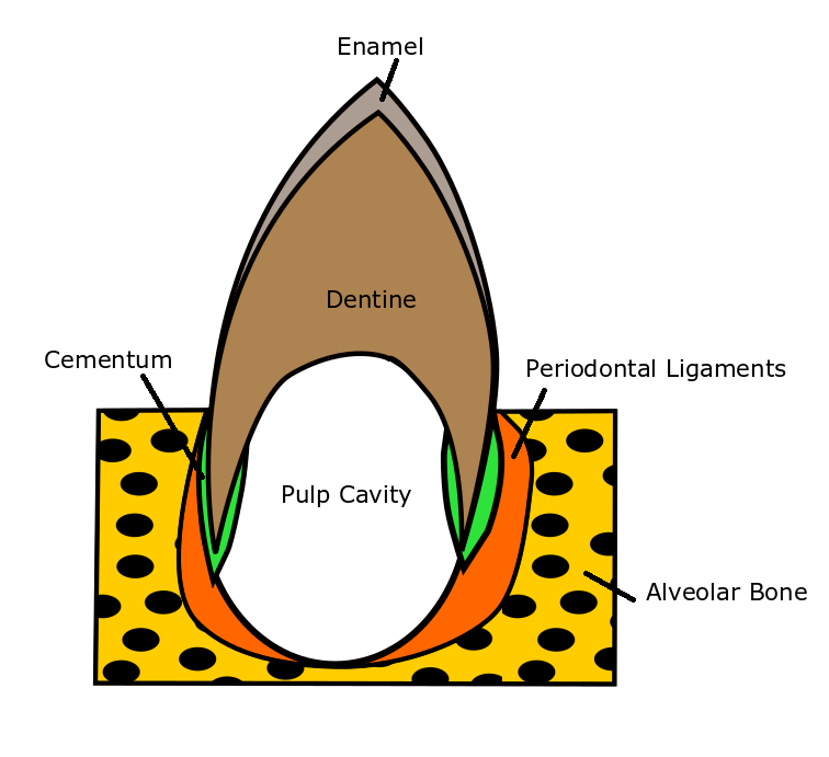 Schematic diagram showing the basic dental tissue types present in a typical dinosaur tooth